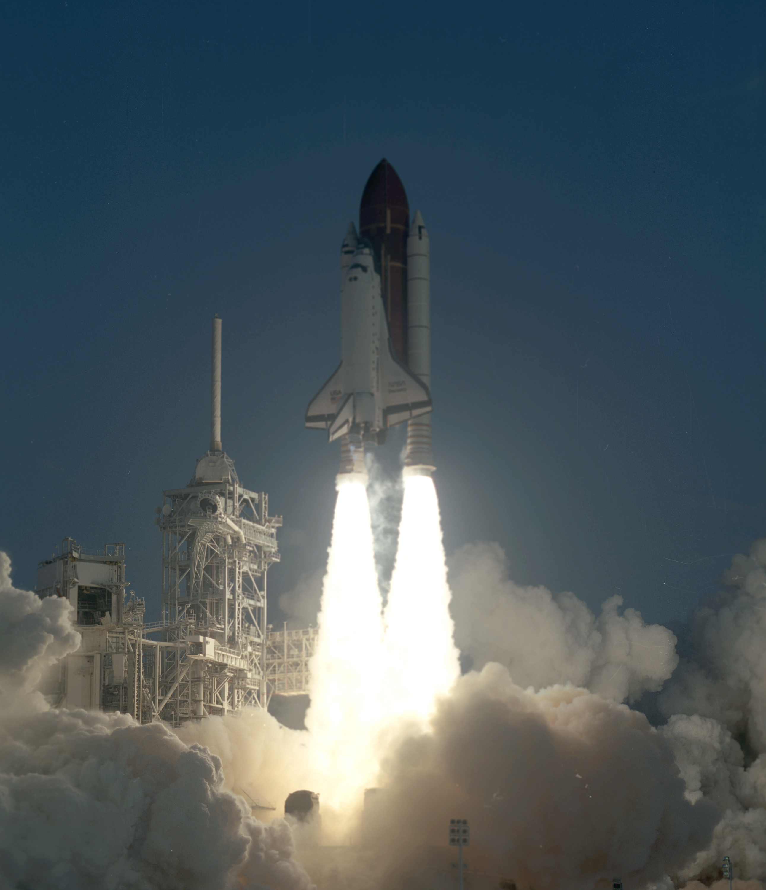 Launched aboard the Space Shuttle Discovery on October 6, 1990 at 7:47:15 am (EDT), the STS-41 mission consisted of 5 crew members. Included were Richard N. Richards, commander; Robert D. Cabana, pilot; and Bruce E. Melnick, Thomas D. Akers, and William M. Shepherd, all mission specialists. The primary payload for the mission was the European Space Agency (ESA) built Ulysses Space Craft made to explore the polar regions of the Sun. Other main payloads and experiments included the Shuttle Solar Backscatter Ultraviolet (SSBUV) experiment and the INTELSAT Solar Array Coupon (ISAC).